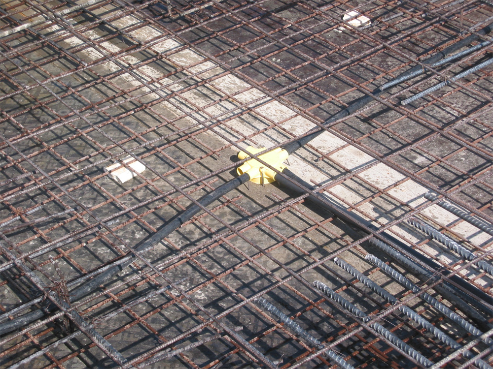 8-port (Swedish) branching box, replaces the old forks boxes (walls) and is also used as a lamp fixture at ceiling.